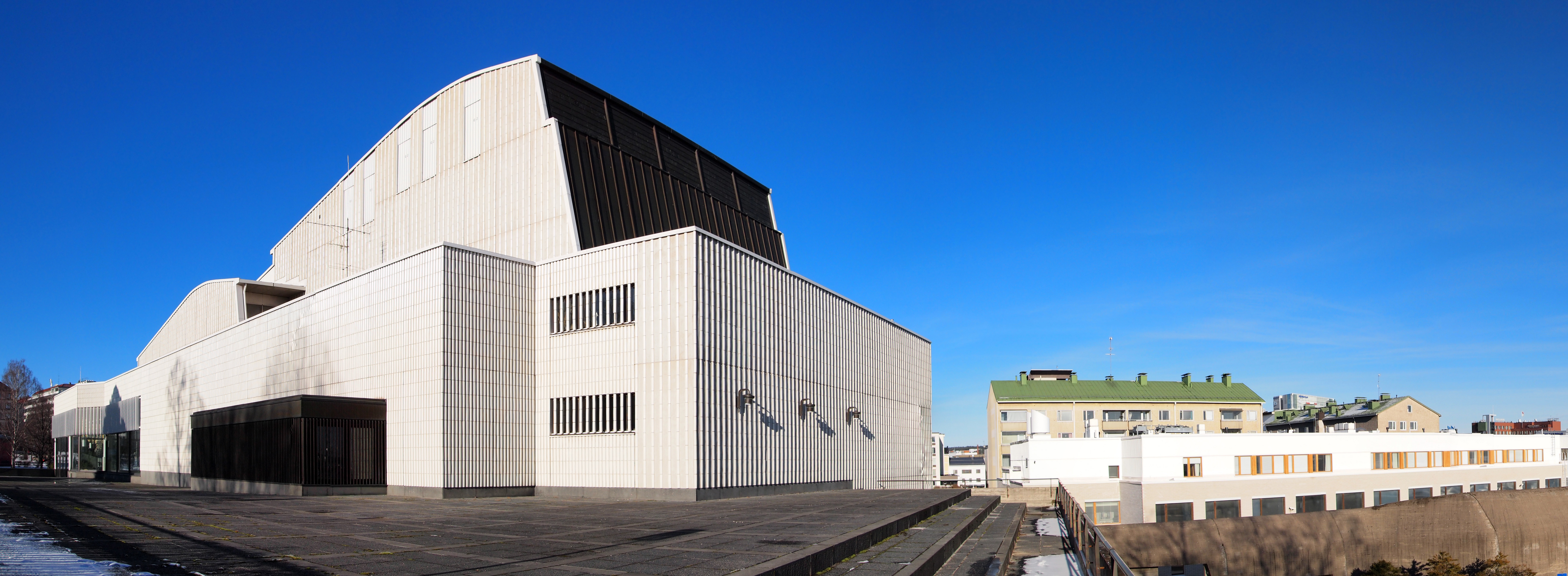 Jyväskylä City Theatre.